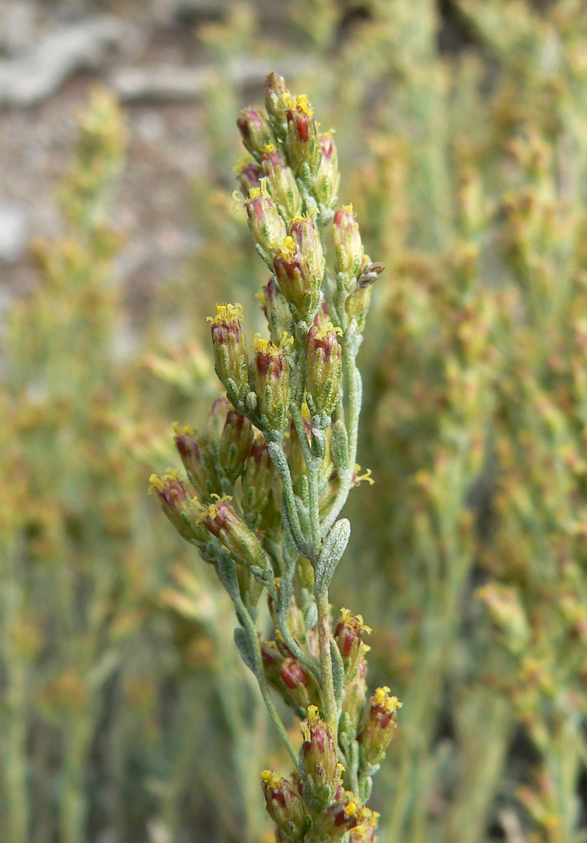 Artemisia nova in upper Lee Canyon near highway 156 below the Deer Creek Highway junction, Spring Mountains, southern Nevada (elev. about 2400 m)